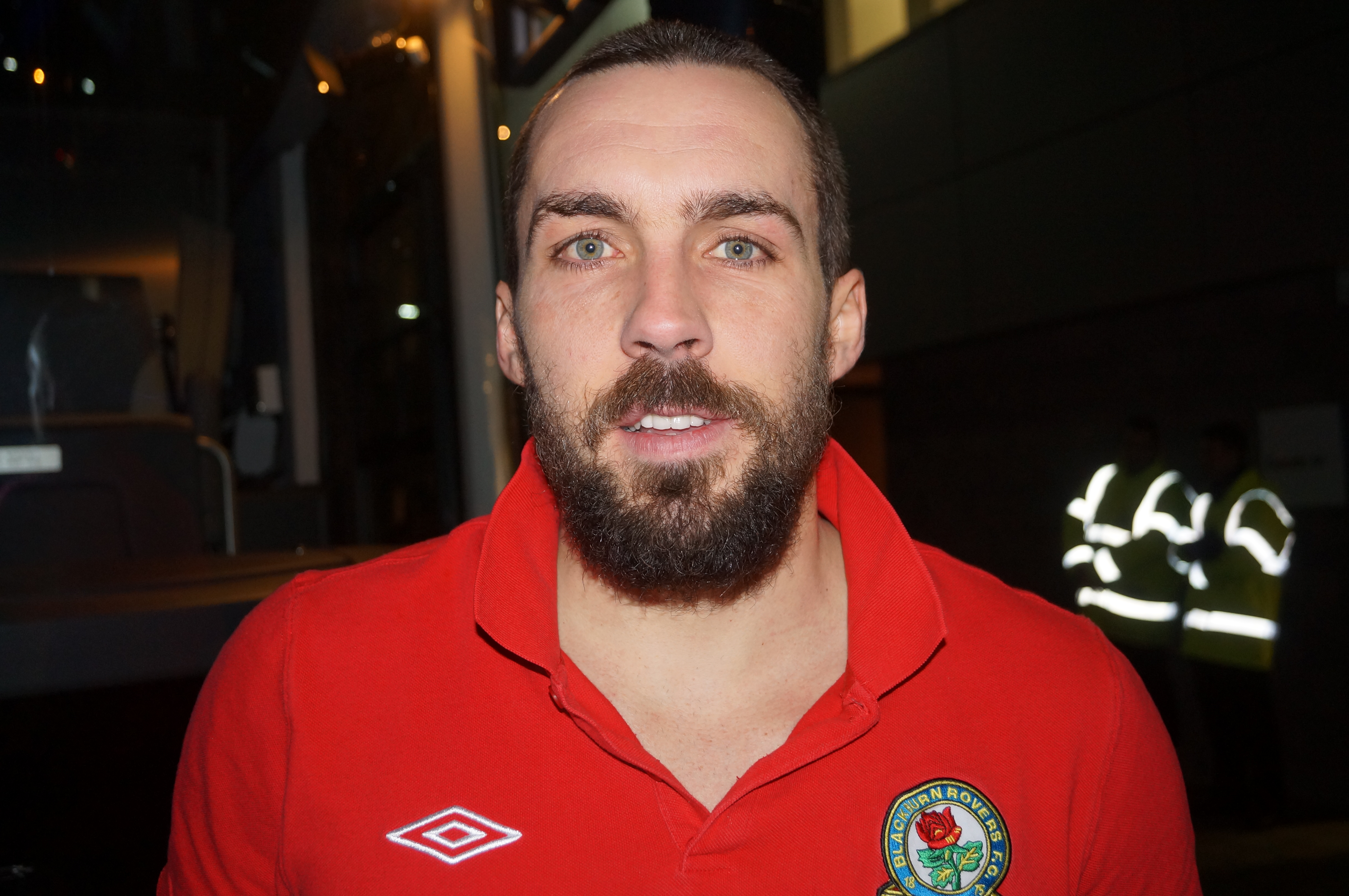 Gael posing for picture after Brighton & Hove Albion vs Blackburn Rovers game 13/02/2013